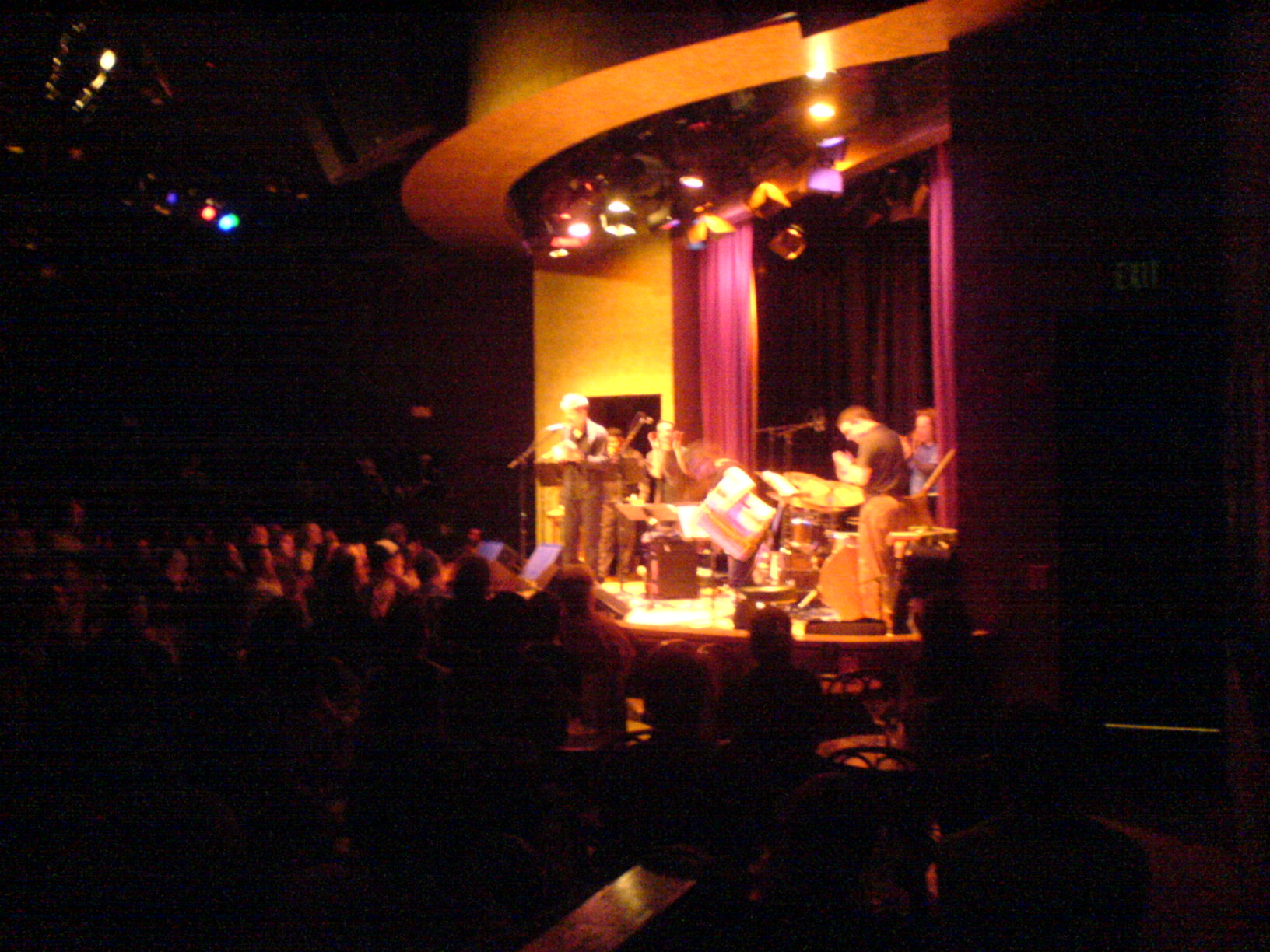 I guess all the hipsters were there because of the Wilco connection. I was there because of the Thurston Moore connection. (Nels Cline performing at Yoshi's Jazz Club at Jack London Square in Oakland, California)